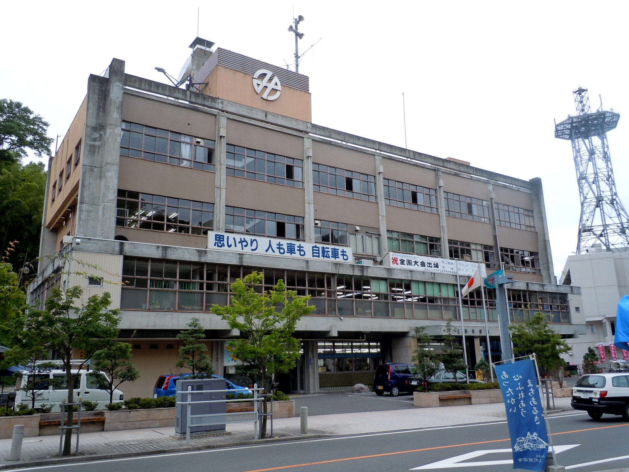 Miharu town office